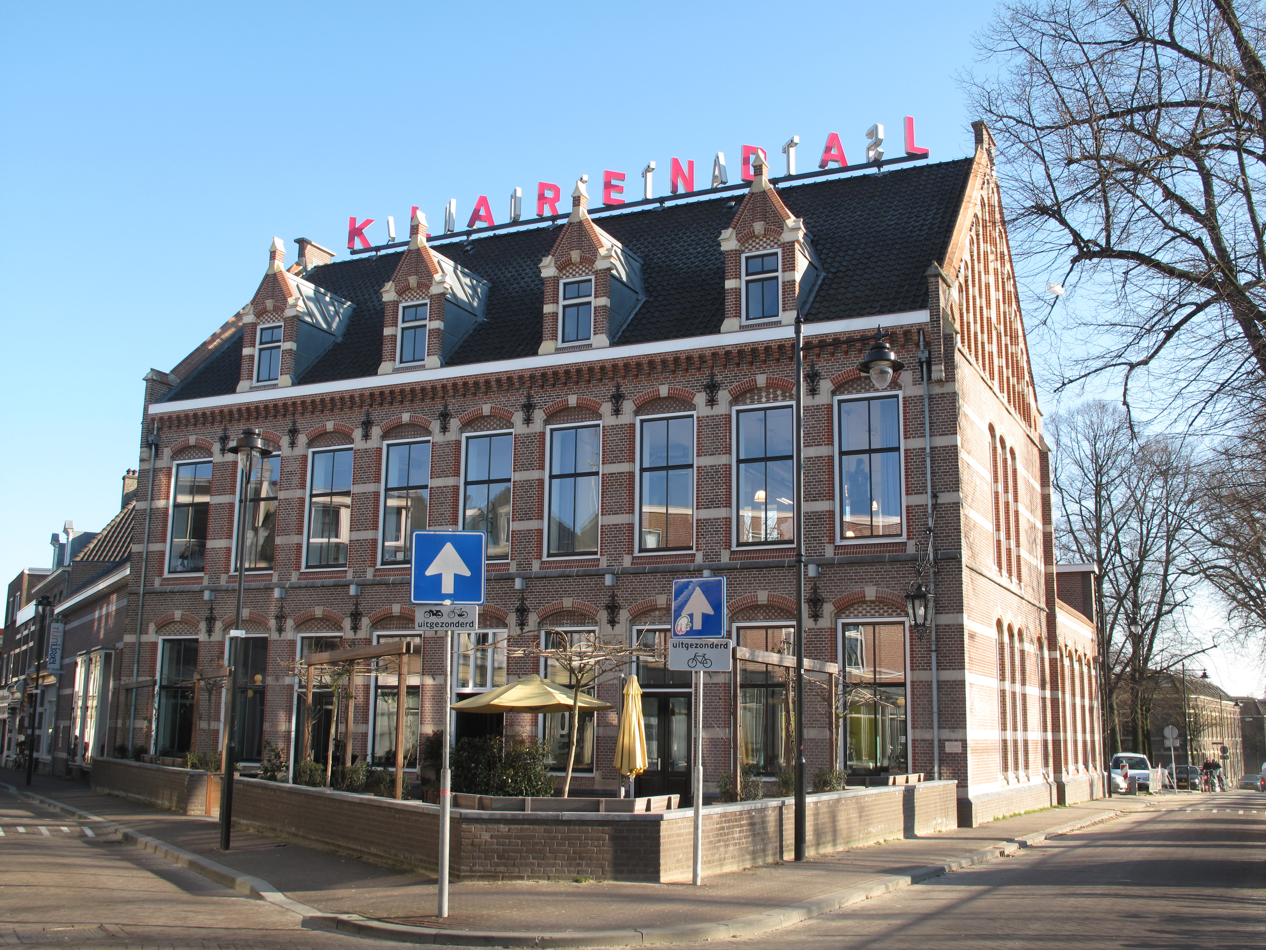 Arnhem-Klarendal, fashion centre Station Klarendal